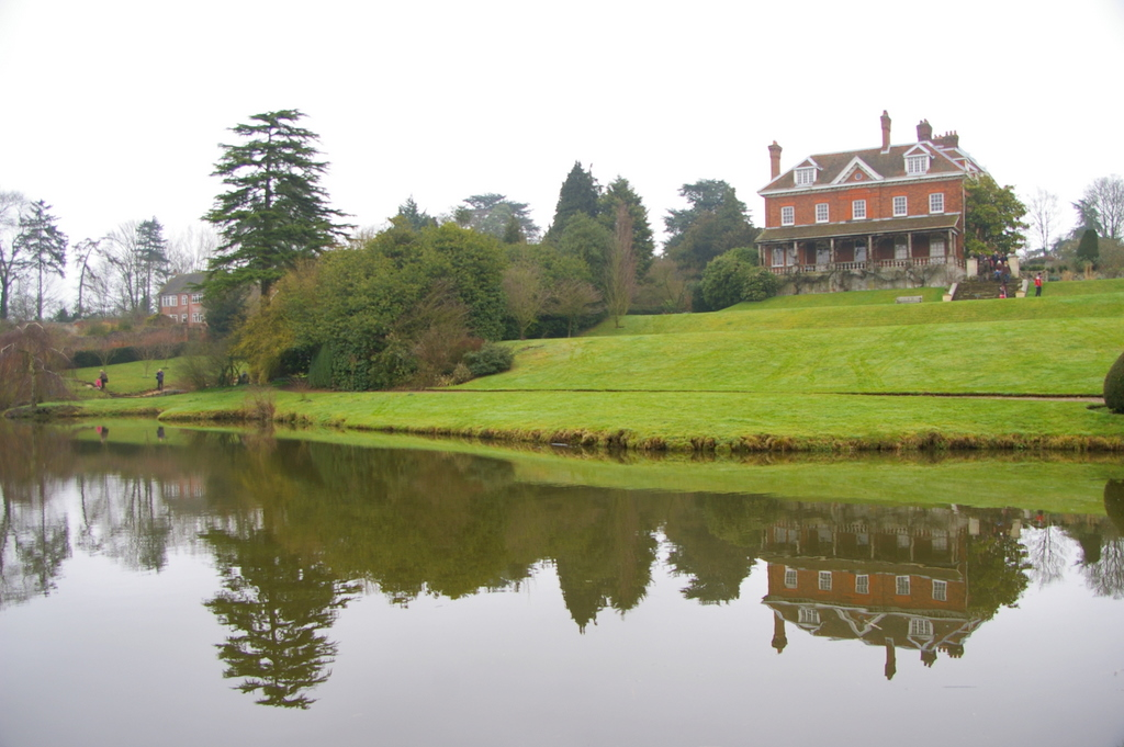 Benington Lordship, Benington, Hertfordshire. Reflection of the house into one of the newly-cleaned ponds.